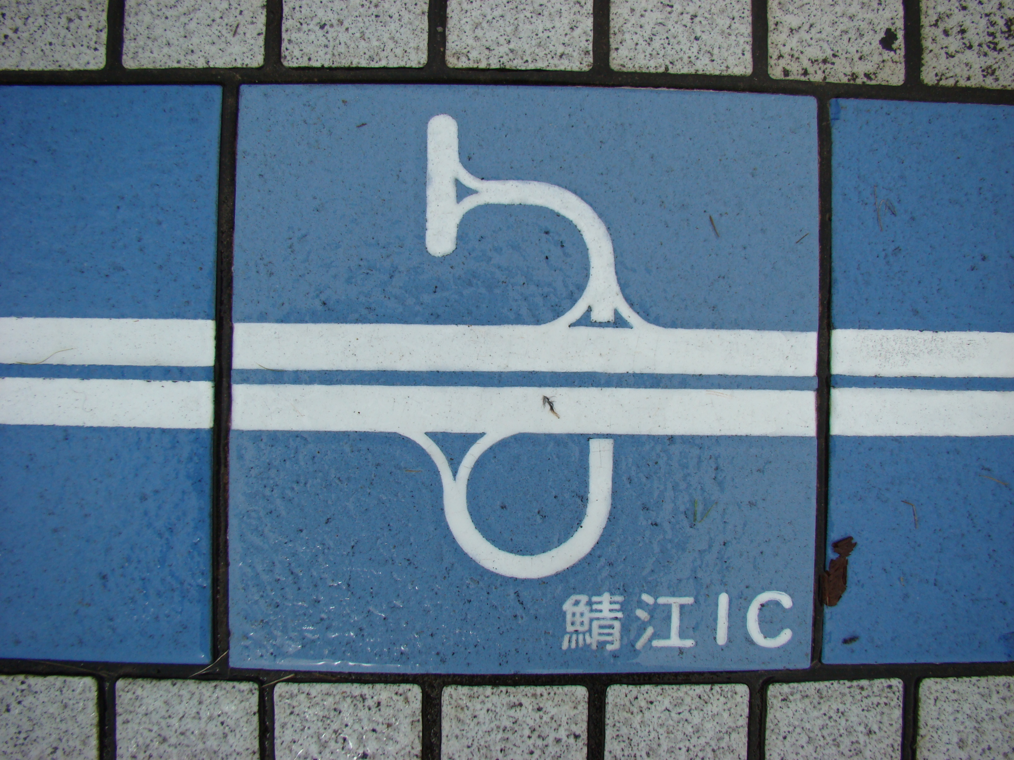 The tile which designed a shape of the Sabae Interchange（Hokuriku Expressway）（There is this tile in Hokuriku Expressway Nadachi-Tanihama Service Area.）. Place - Chayagahara,Joetsu City,Niigata Prefecture,Japan Date - August 9, 2009 Format - JPEG, 3264x2448pixel, 24bit colors. Photographer - NALA Wiki (talk)